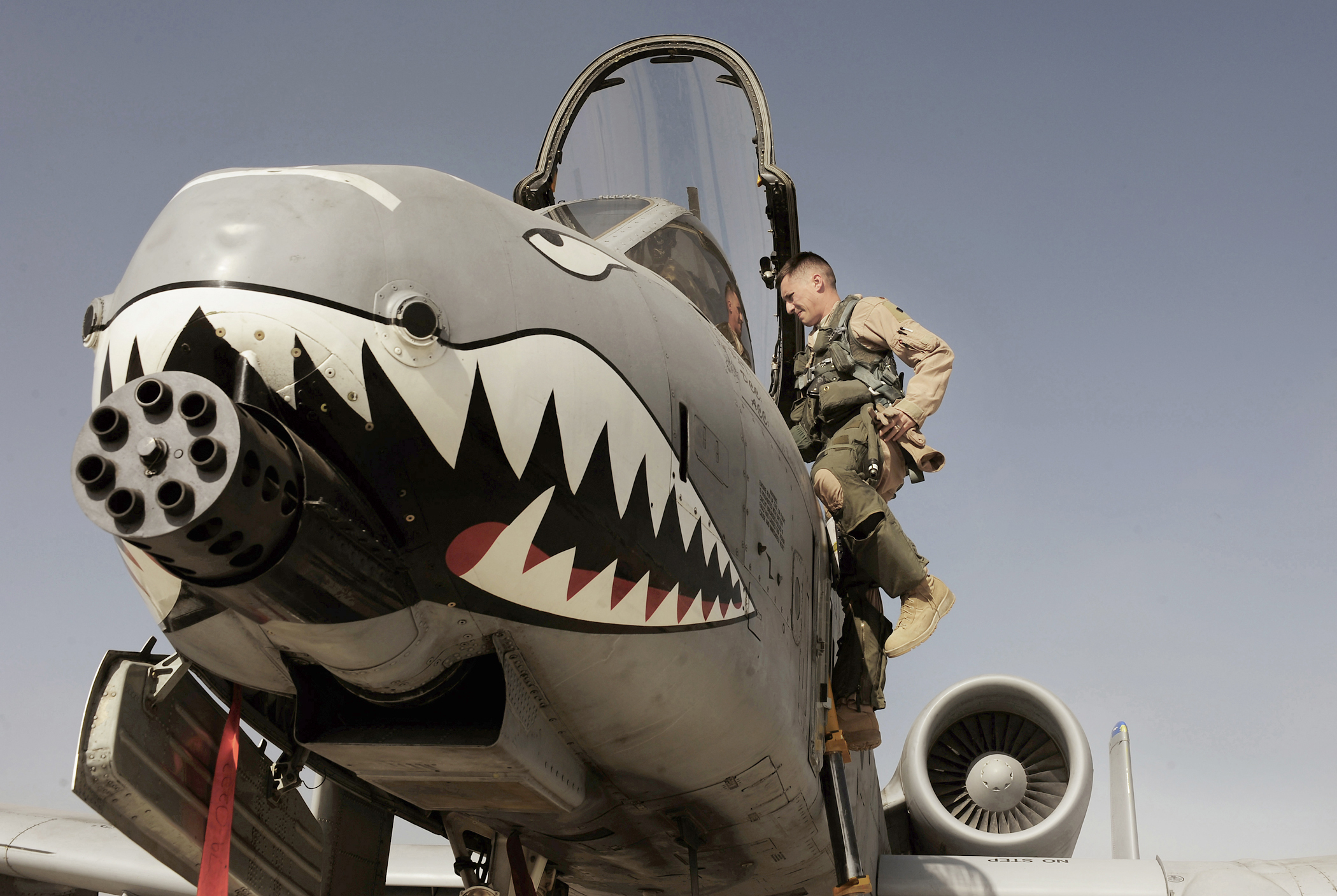 Maj. Loren Coulter exits an A-10C Thunderbolt II at Kandahar Airfield, Afghanistan, on Jan. 11, 2011. The 75th Expeditionary Fighter Squadron moved their assets to the other side of the flight line, marking the first of many moves toward consolidating the 451st Air Expeditionary Wing's missions. Coulter is an A-10 pilot assigned to the 75th Expeditionary Fighter Squadron.